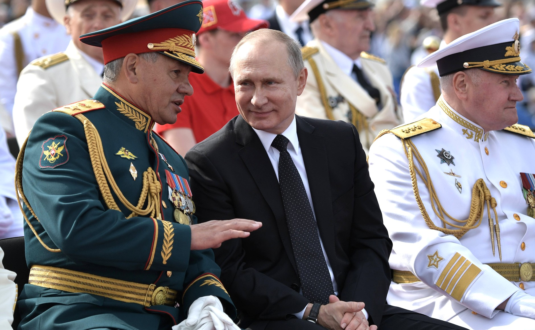 Vladimir Putin and Sergey Shoigu at Navy Parade. Saint-Petersburg, 30 July 2017.